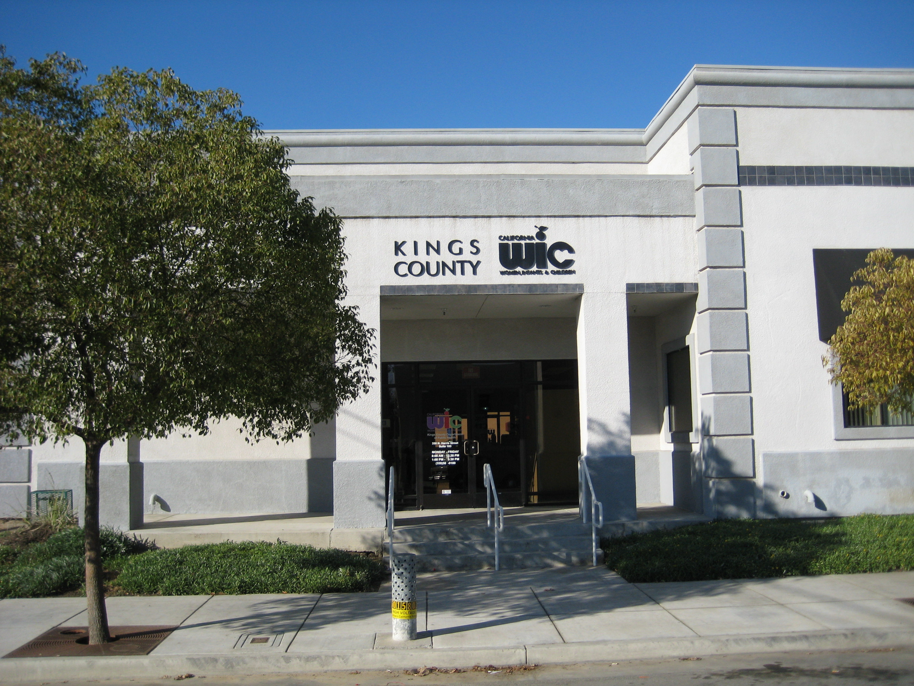 Photo of the office of the Supplementary Nutrition Program for Women, Infants and Children (WIC) for Kings County, California located in Hanford, California and taken on 12 January 2013.